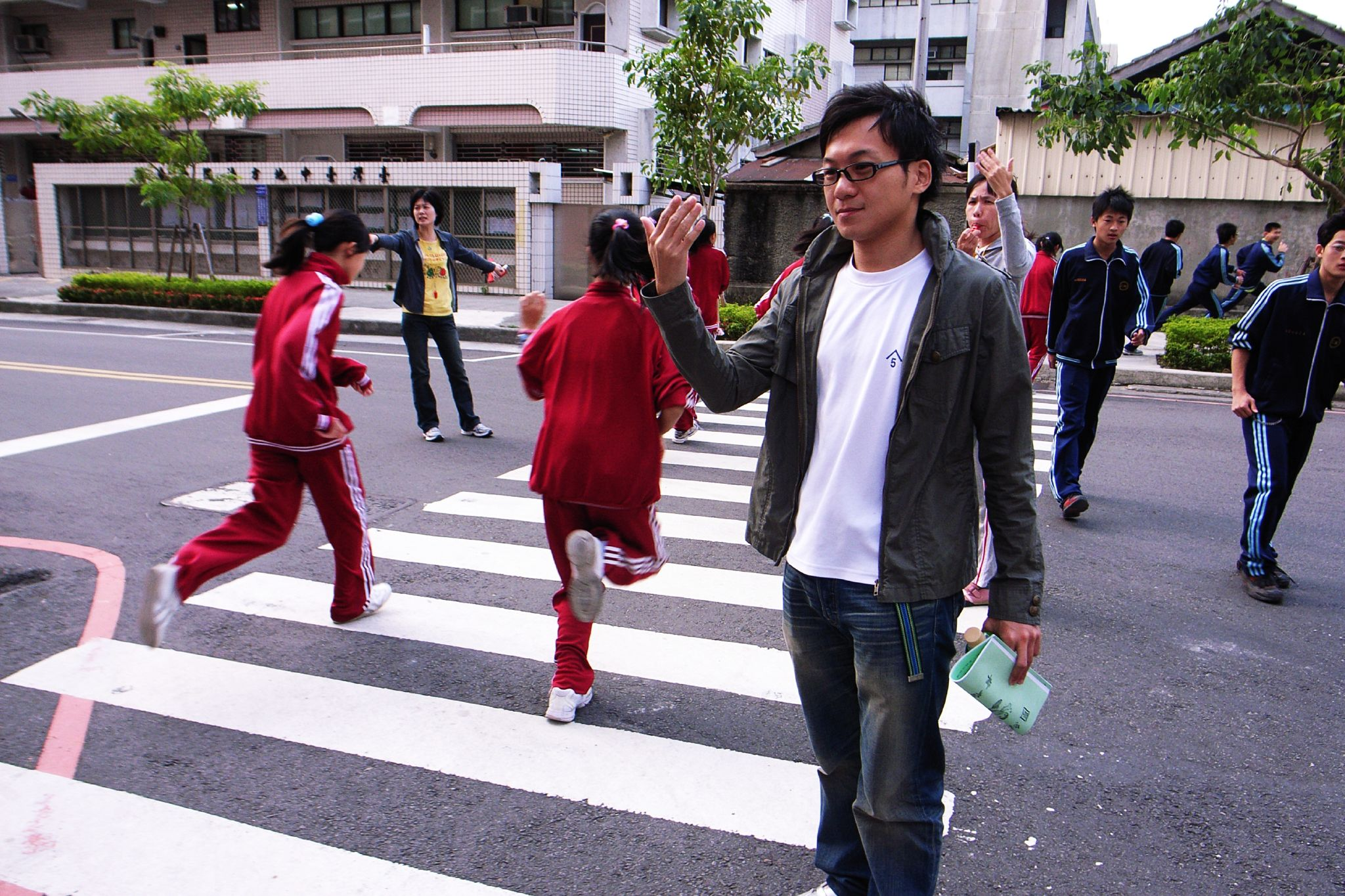 Road-running in Chu Jen Junior High School in Taichung City, Taiwan. 中文（台灣）: 台中市居仁國中的運動會路跑比賽。